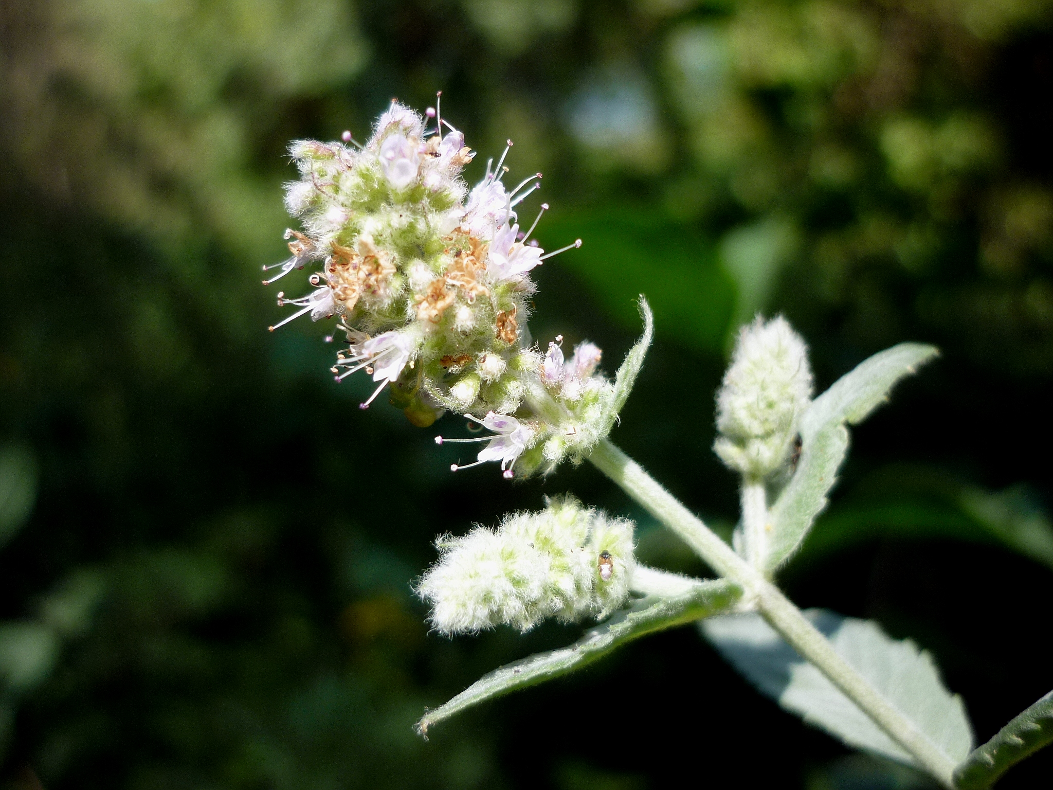 Mentha longifolia. In Torà (Segarra - Catalunya). To 560 m. altitude